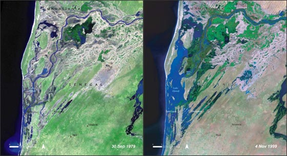 Lake Djoudj during the Sept. 1979 drought (left) and during the Nov. 1999 flood (right). In August 2006, the United Nations Environment Programme (UNEP), released an atlas entitled: "Africa's Lakes: Atlas of Our Changing Environment." The atlas relies heavily on Landsat imagery from the past 34 years to show changes in lakes around the African continent. Above, are two Landsat images of the Djoudj Sanctuary in Senegal that are featured in the atlas. The atlas tell us: "Situated in the Senegal river delta, the Djoudj Sanctuary is a wetland of 16 000 ha, comprising a large lake, referred to as Lake Djoudj in this publication, surrounded by streams, ponds and backwaters. These two images show the Djoudj Sanctuary before and after the construction of the Diama Dam." "The image from September 1979 shows the impact of drought on the Djoudj Sanctuary, while the image from November 1999 shows rejuvenation of the sanctuary wetlands due to the significant floods of that year. The two images vividly depict the impact of climate variability on the Djoudj Sanctuary—and demonstrate the broader need for close monitoring of the impacts of climate variability and climate change on lake environments."